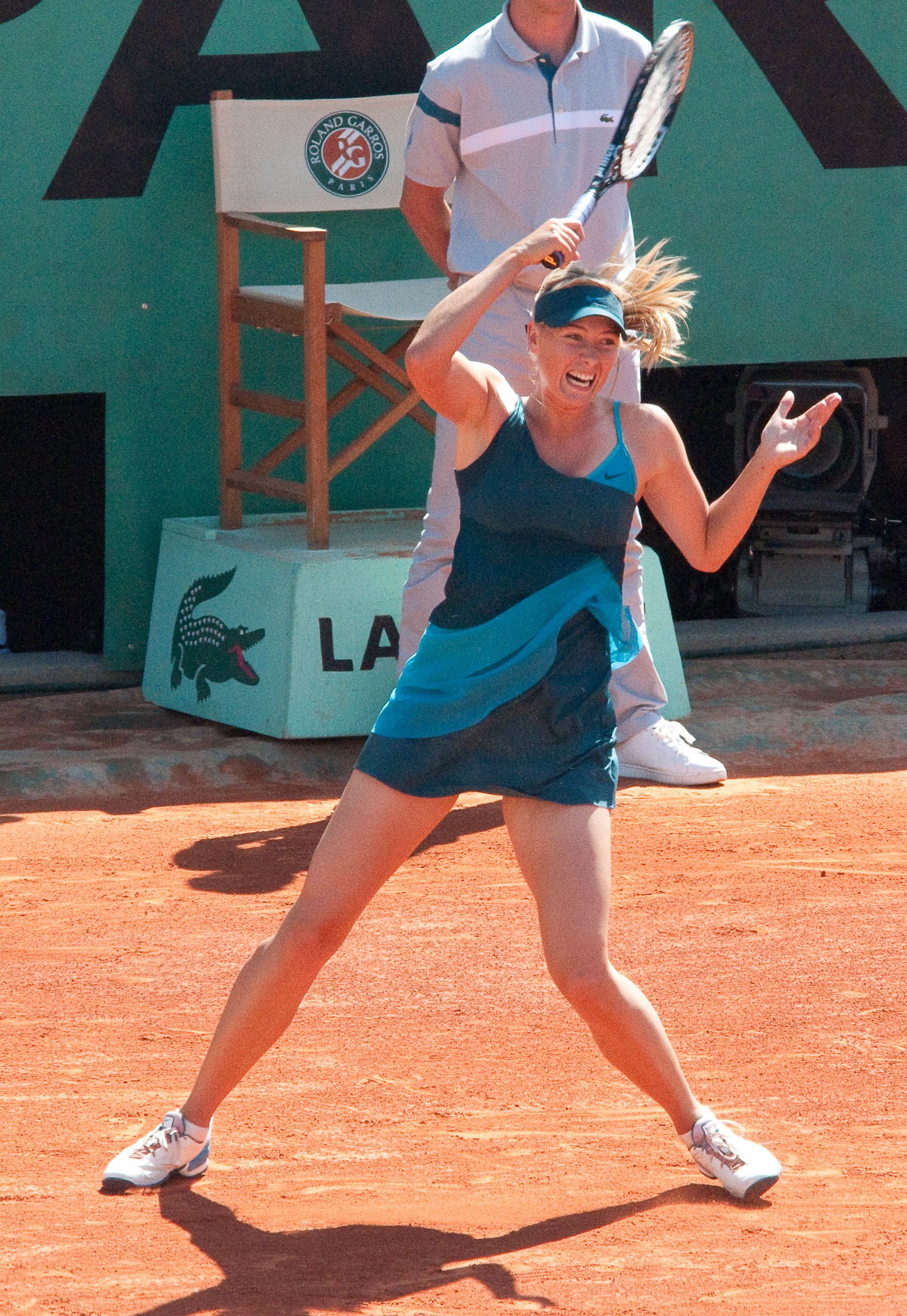 Maria Sharapova at 2009 Roland Garros, Paris, France